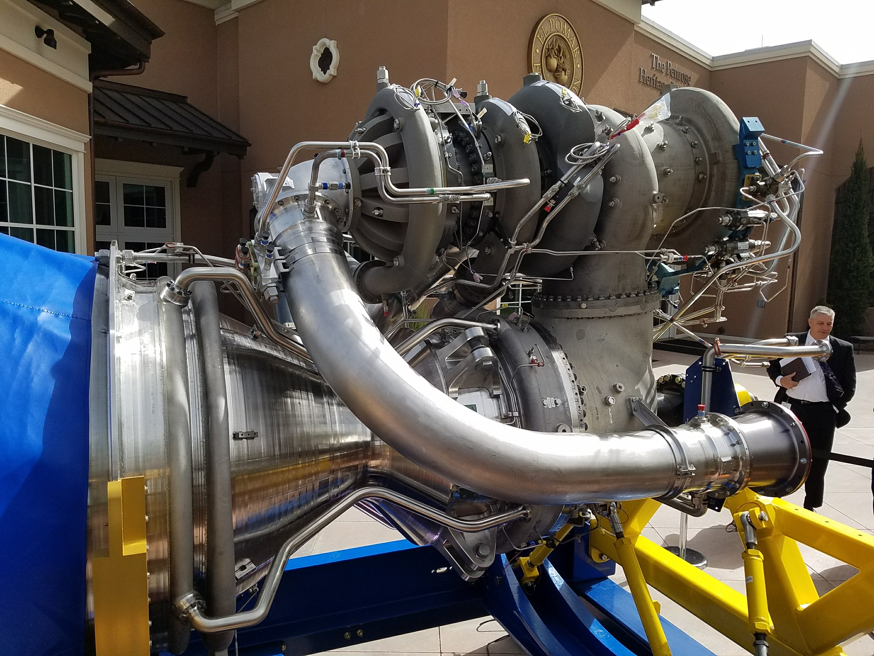 The BE-4, originally serial number 101, was manufactured in Kent, Washington during October 2017. It was the first BE-4 engine to be hotfire tested, on 18 Oct 2017. It has subsequently been hotfire tested, disassembled, rebuilt and retested several times to its current iteration in this photo, noted as SN 103. Portions of this development engine have gone through destructive disassembly and inspection. Part no. 004-150-0000-001